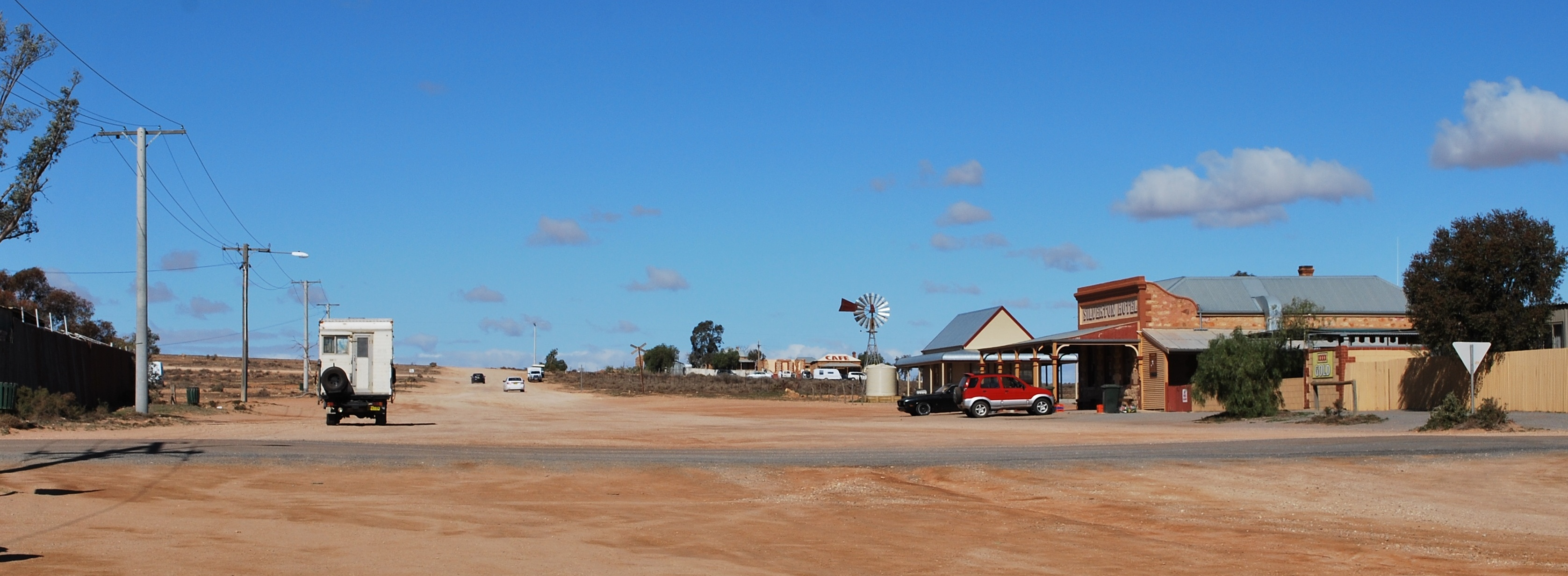 The cross roads at Silverton, New South Wales